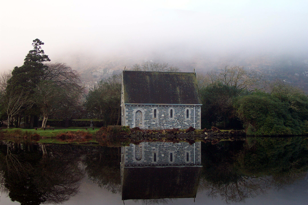 Gougane Barra on a foggy winter's morning.